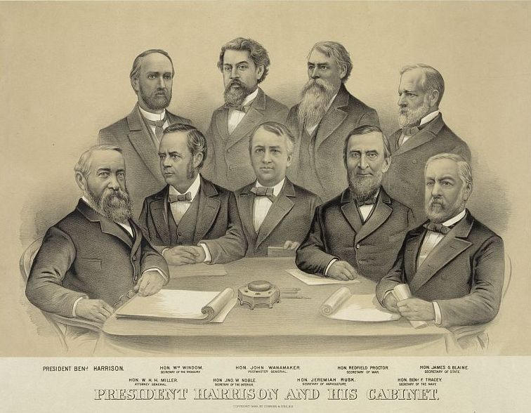 President Benjamin Harrison and his cabient